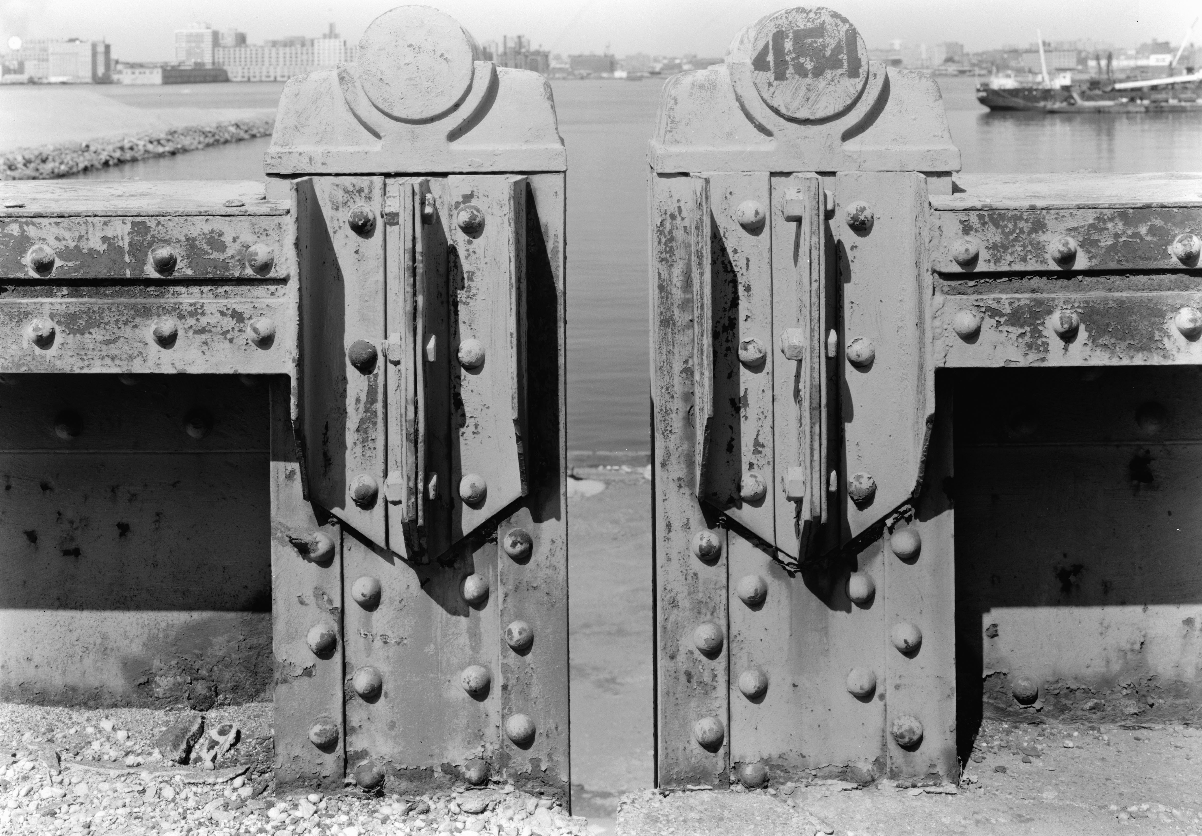 West Side Highway, view of construction detail near Chambers St. ramp.